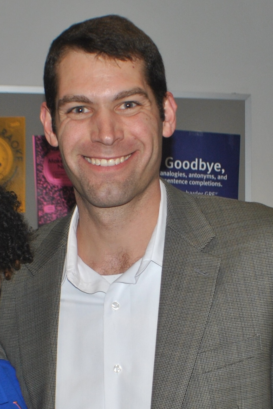 Senator Rob Garagiola, Democrat from Frederick Maryland, visits the Maryland Young Democrats convention during his campaign to represent Maryland's 6th District in the US Congress.